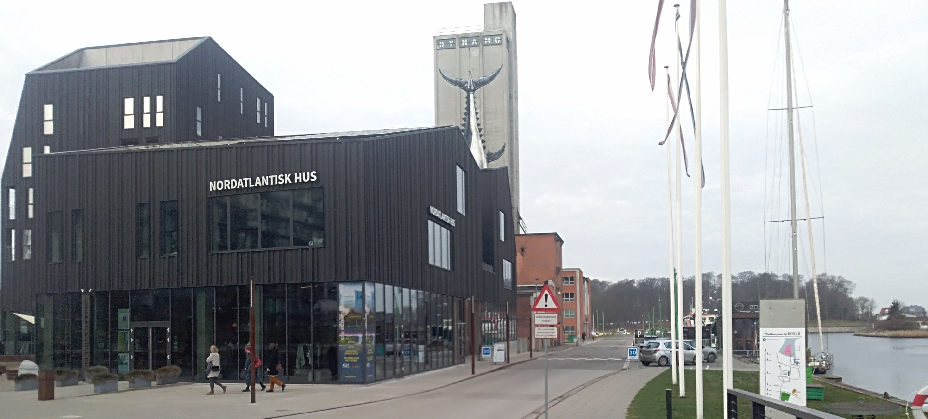 The North Atlantic House displaying the culture of the Faroe Islands, Greenland and Iceland.